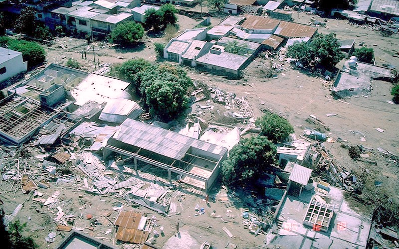 Aerial photograph, the only standing buildings left in the town of Armero in Tolima Department, Colombia, after the Armero tragedy.